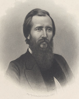 Lionel Allen Sheldon (1828-1917) This file has been extracted from another file: LASheldon.jpg